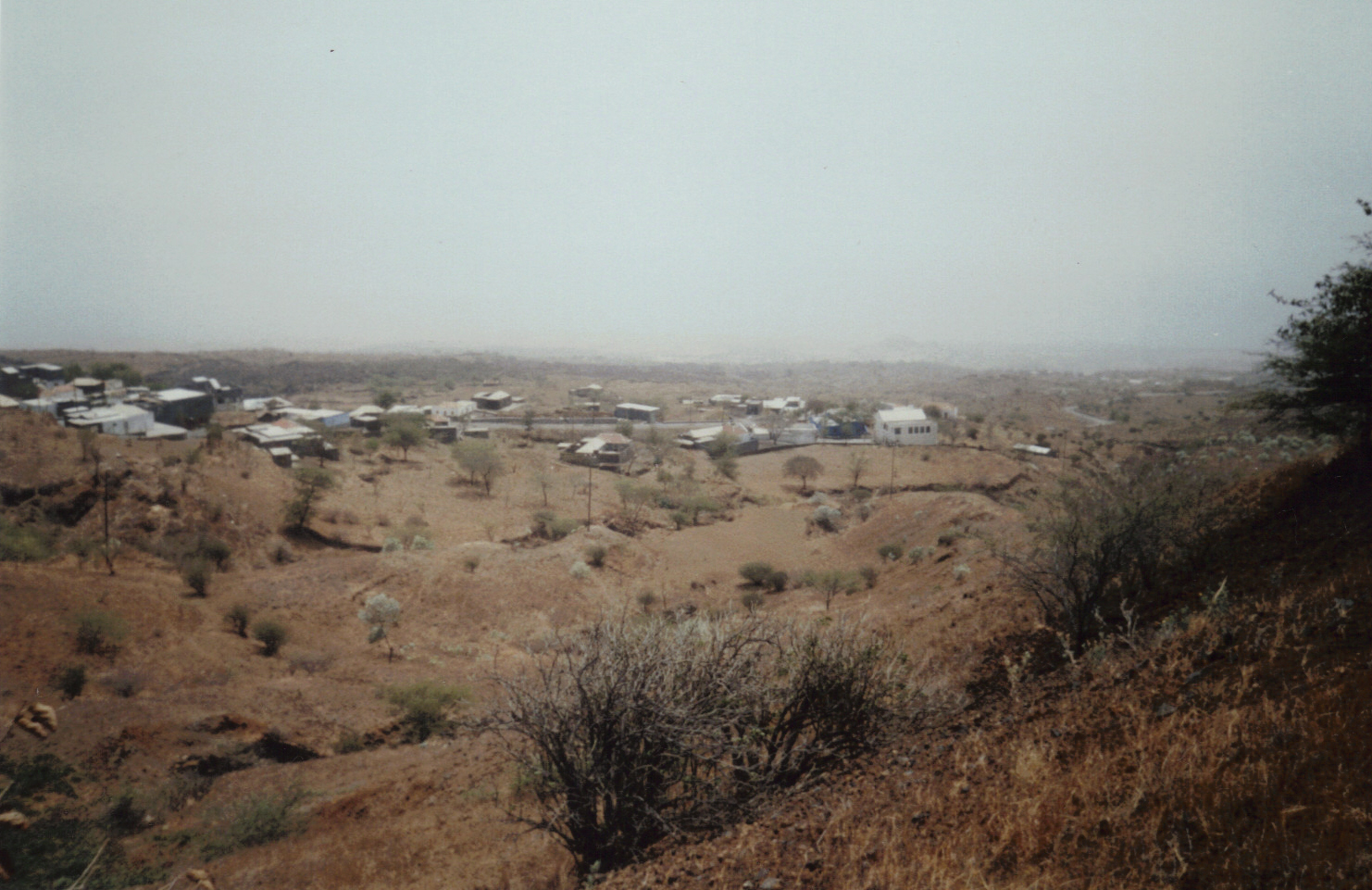 General view of the village Monte Largo, island of Fogo, Cape Verde.